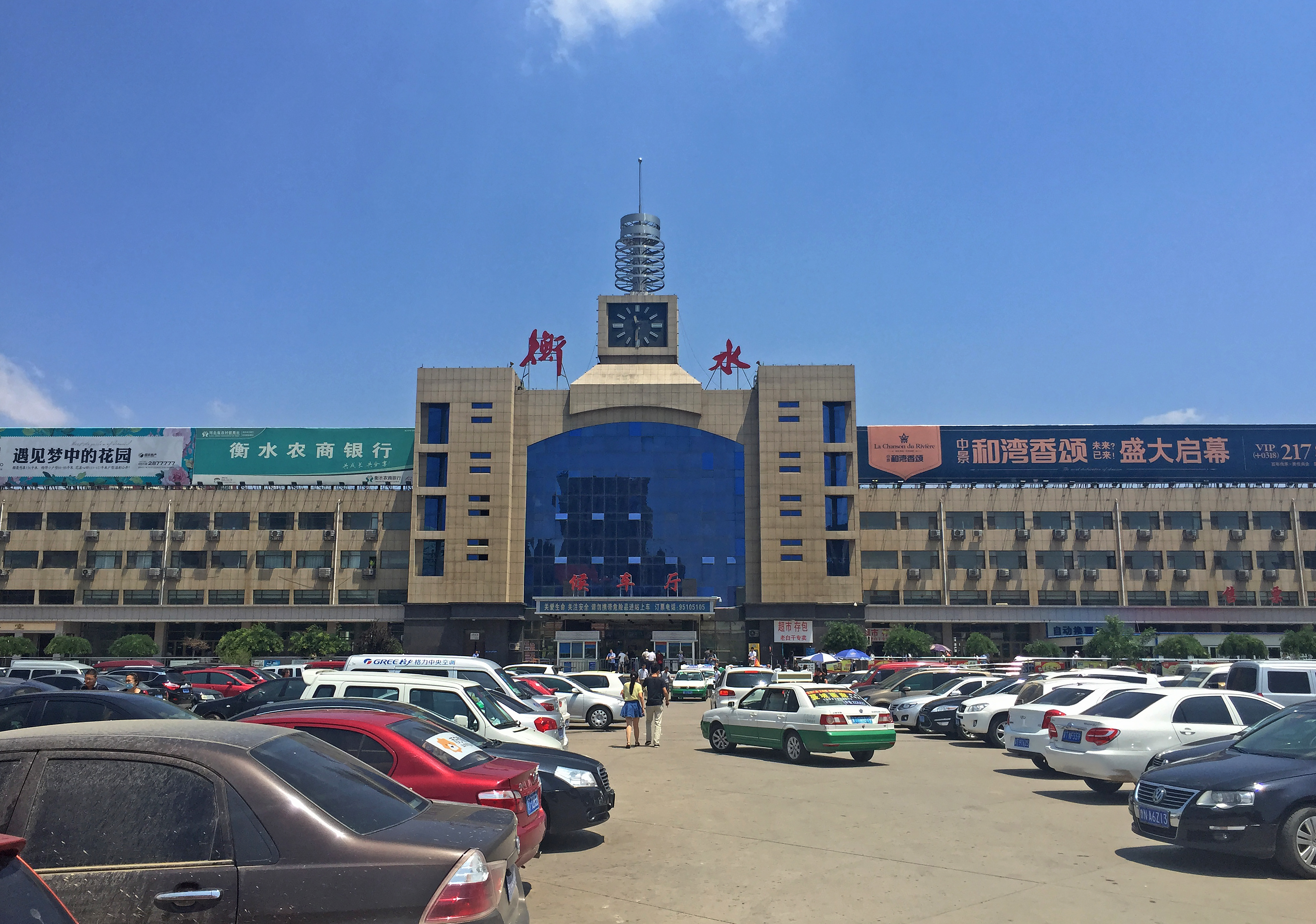 Fine day after rain.